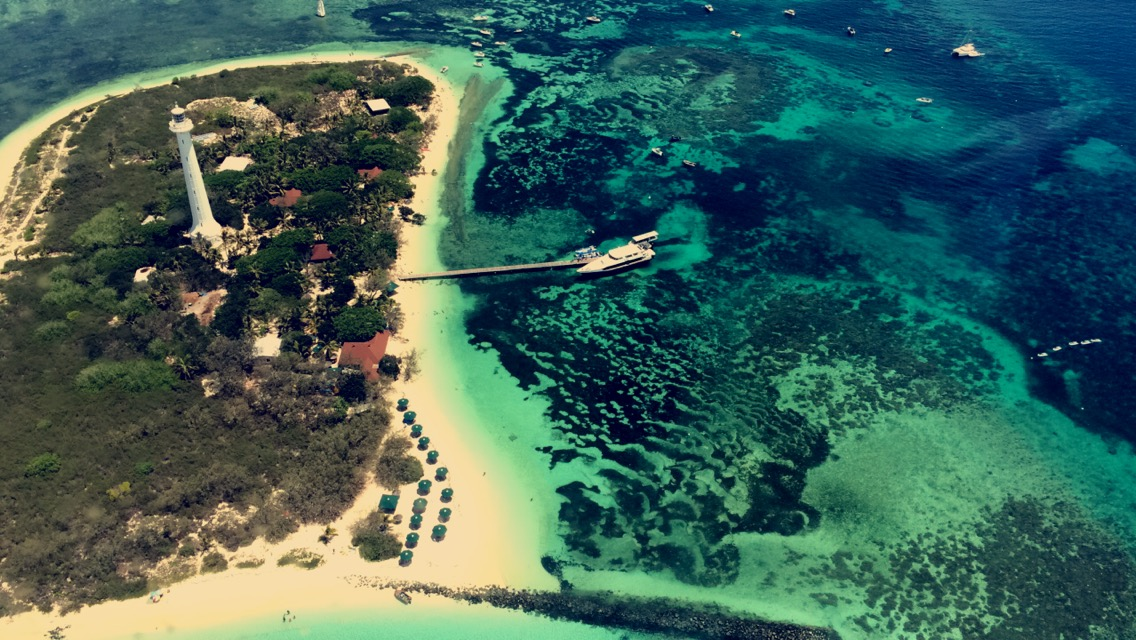 Amédée lighthouse on islet Amédée, New Caledonia (Pacific Ocean).